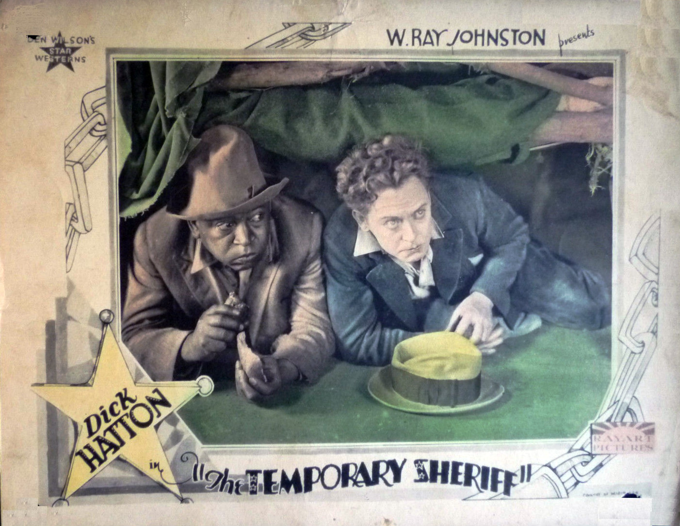 Lobby card for the American western film The Temporary Sheriff (1926).